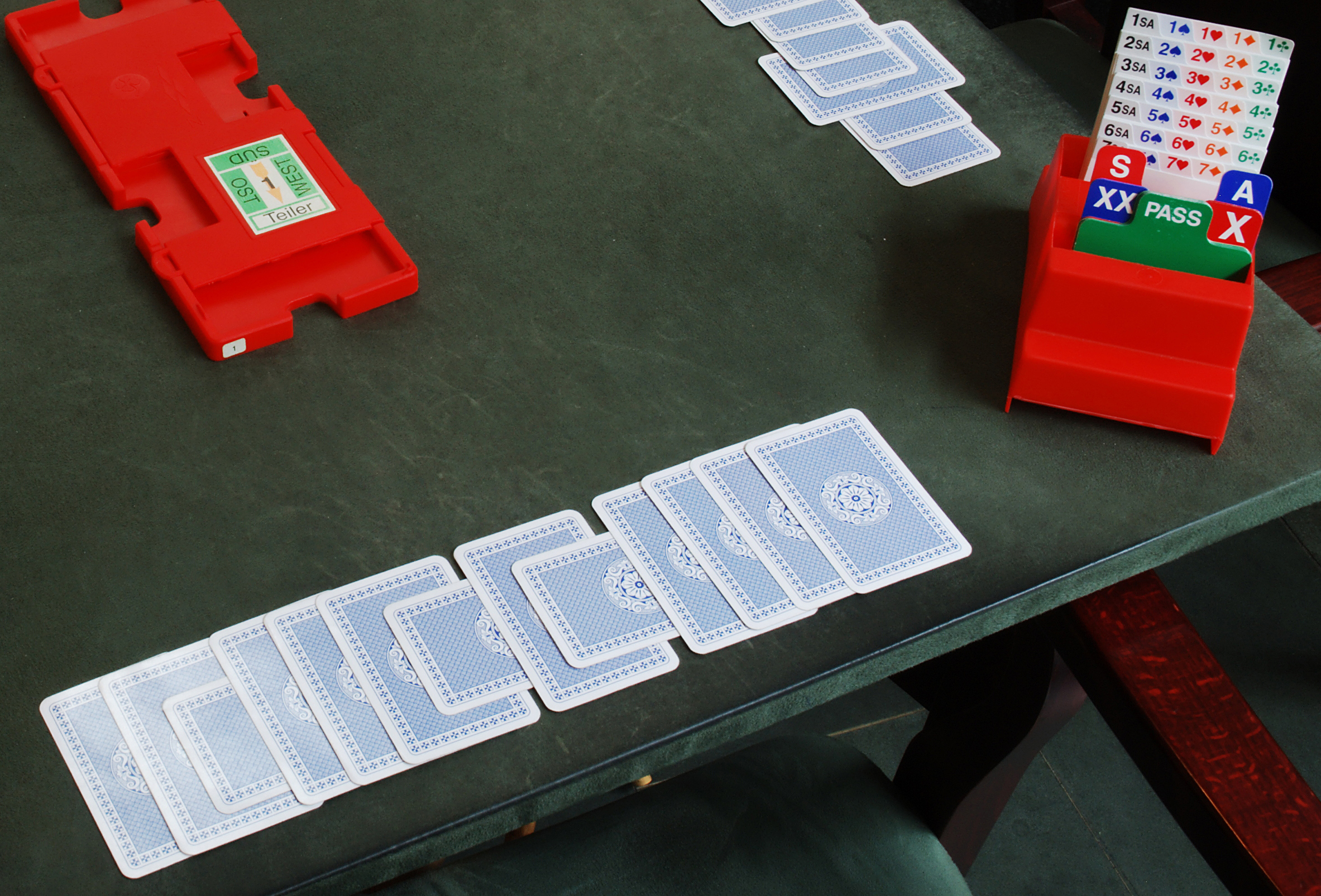 This pictures shows the cards turned down after a bridge game. A card of a trick won by the own side is pointed lengthwise toward the partner, a card of a trick won by the opponents is pointed lengthwise toward the opponents. The cards are arranged from left to right. In this example, North-South (the players at the top and the bottom) won the tricks 1, 2, 4, 5, 6, 8, 10, 11, 12 and 13. East-West (the players left and right) accordingly won the tricks 3, 7 and 9.